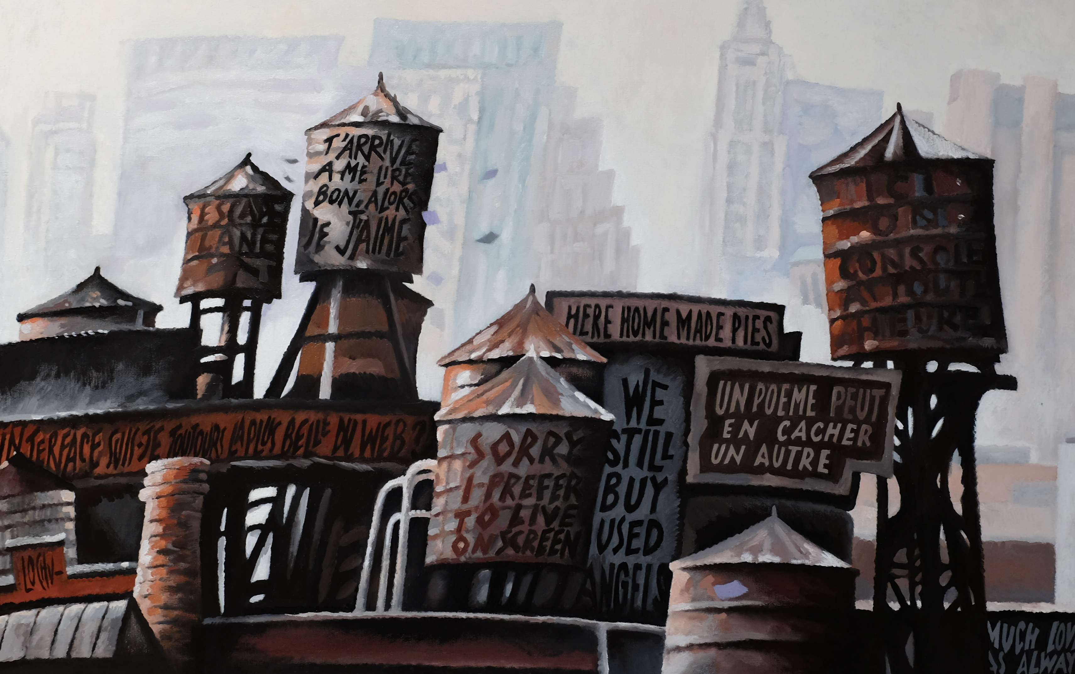 Water Towers Story, 73x116 cm Huile sur toile, Claude-Max Lochu